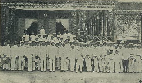 Portrait of Chulalongkorn in Uttaradit)